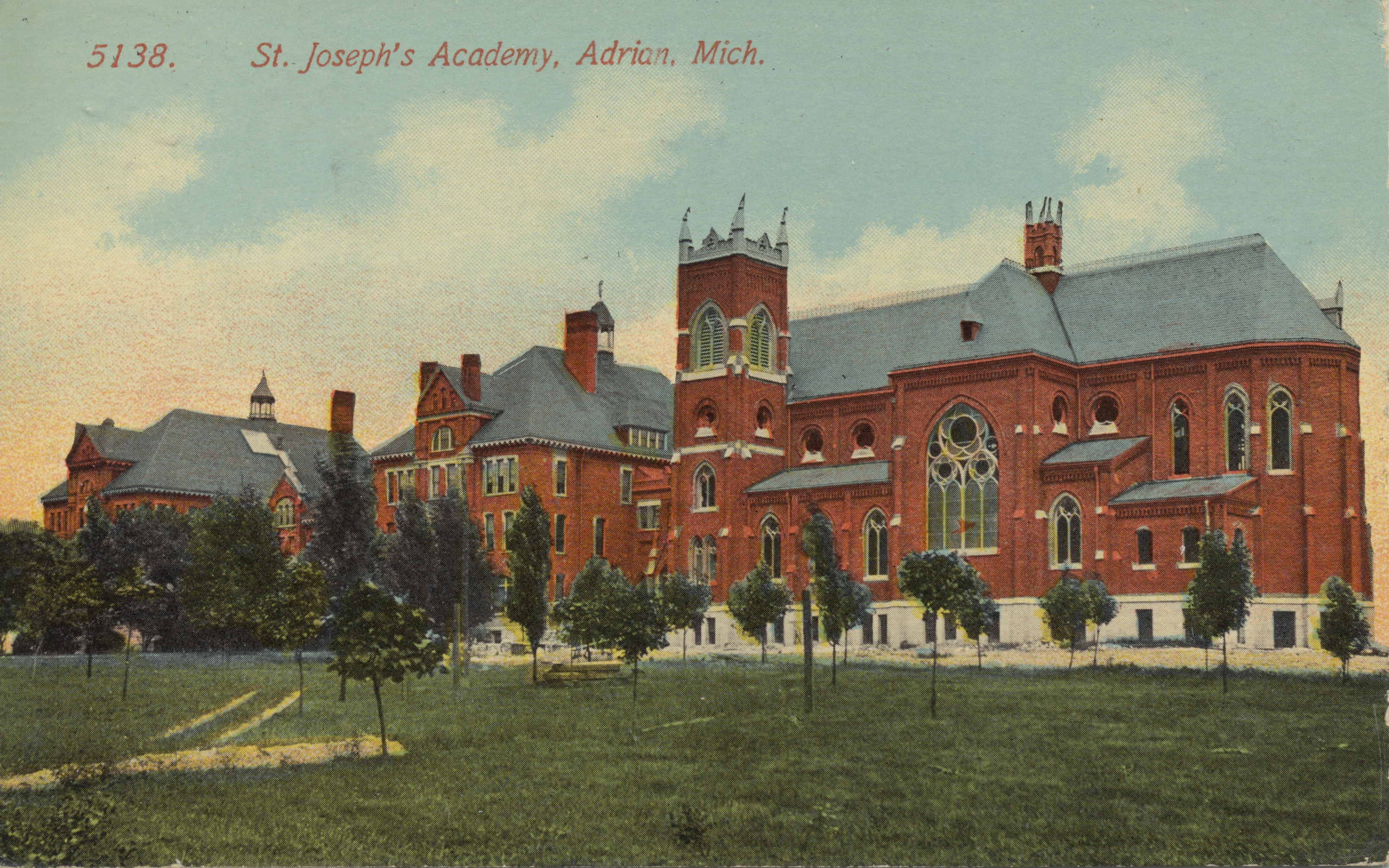 Persistent URL: Subject (TGM): Universities and colleges; Historic buildings; Architecture